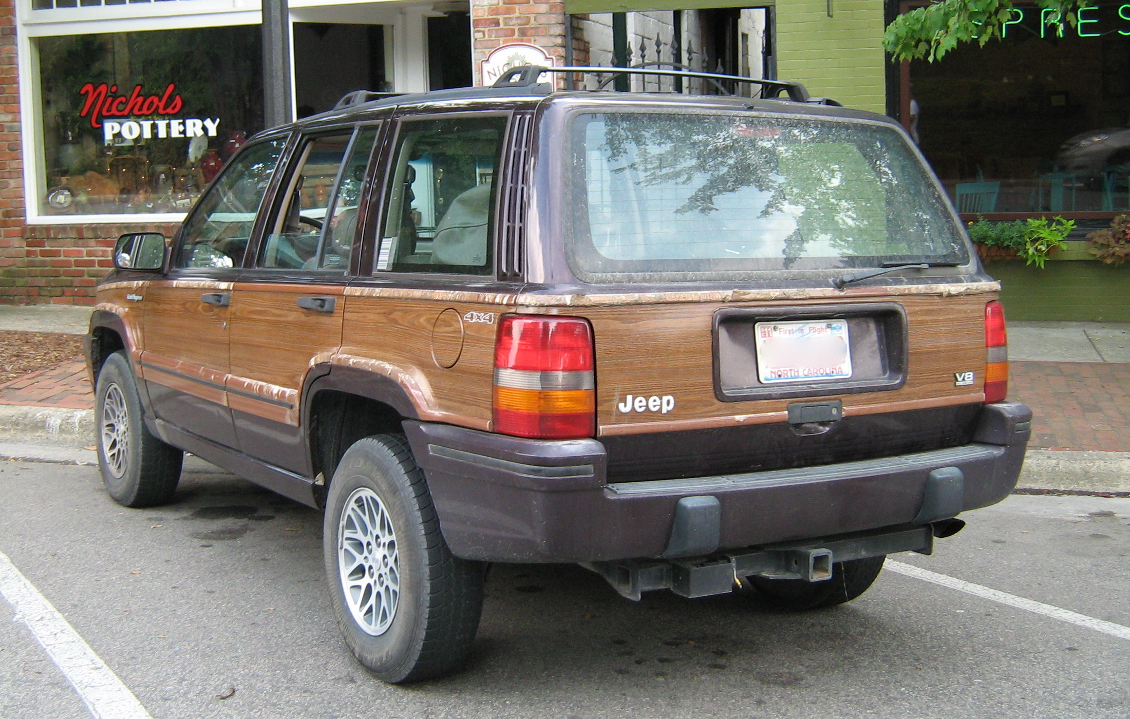 1993 Jeep Grand Wagoneer V8 SUV finished in Black Cherry (dark red) with standard woodgrain body trim. Rear view also shows the factory receiver hitch for trailer towing.